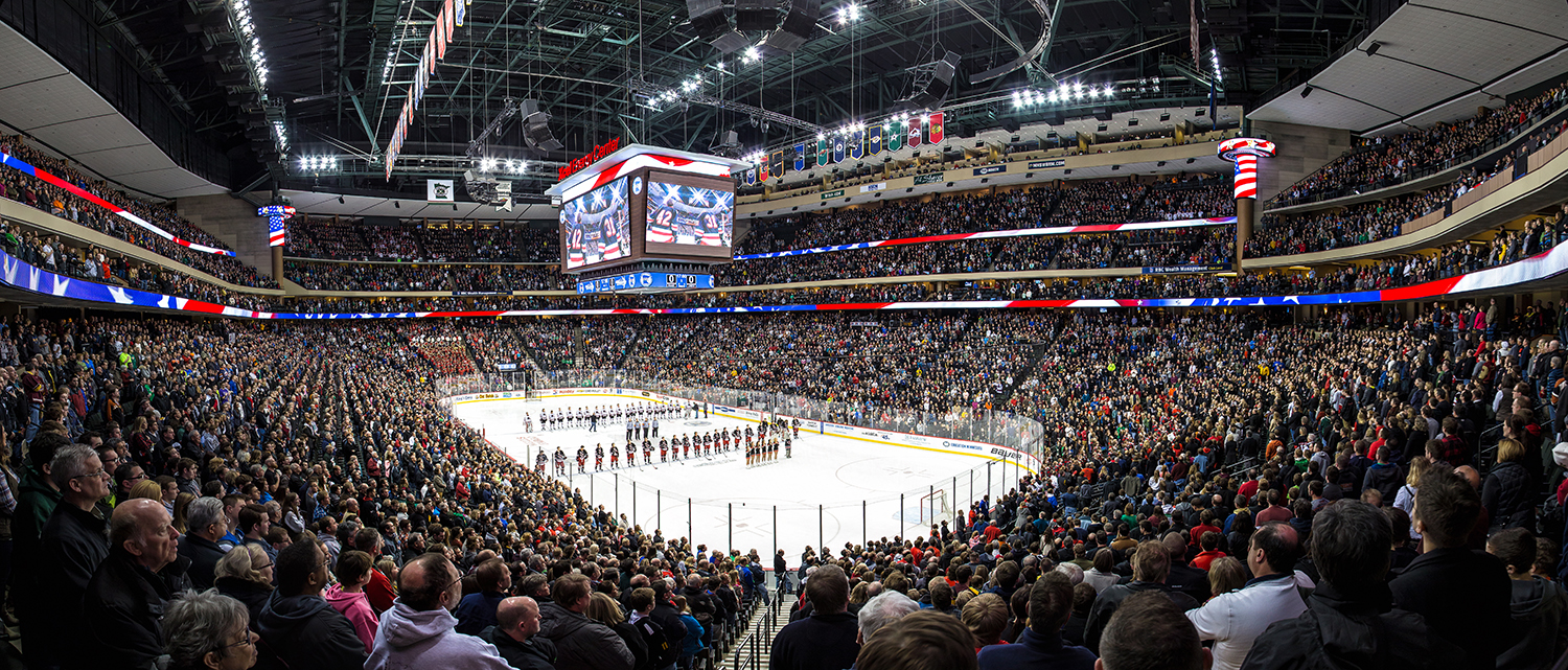 Playing of the Star Spangled Banner prior to the 2015 Minnesota Boys High School Hockey Championship game between Lakeville North and Duluth East at the Xcel Energy Center.